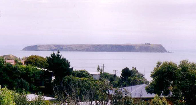 Mana Island, New Zealand, seen from Porirua. Photograph taken in February 2000 by James Dignan.